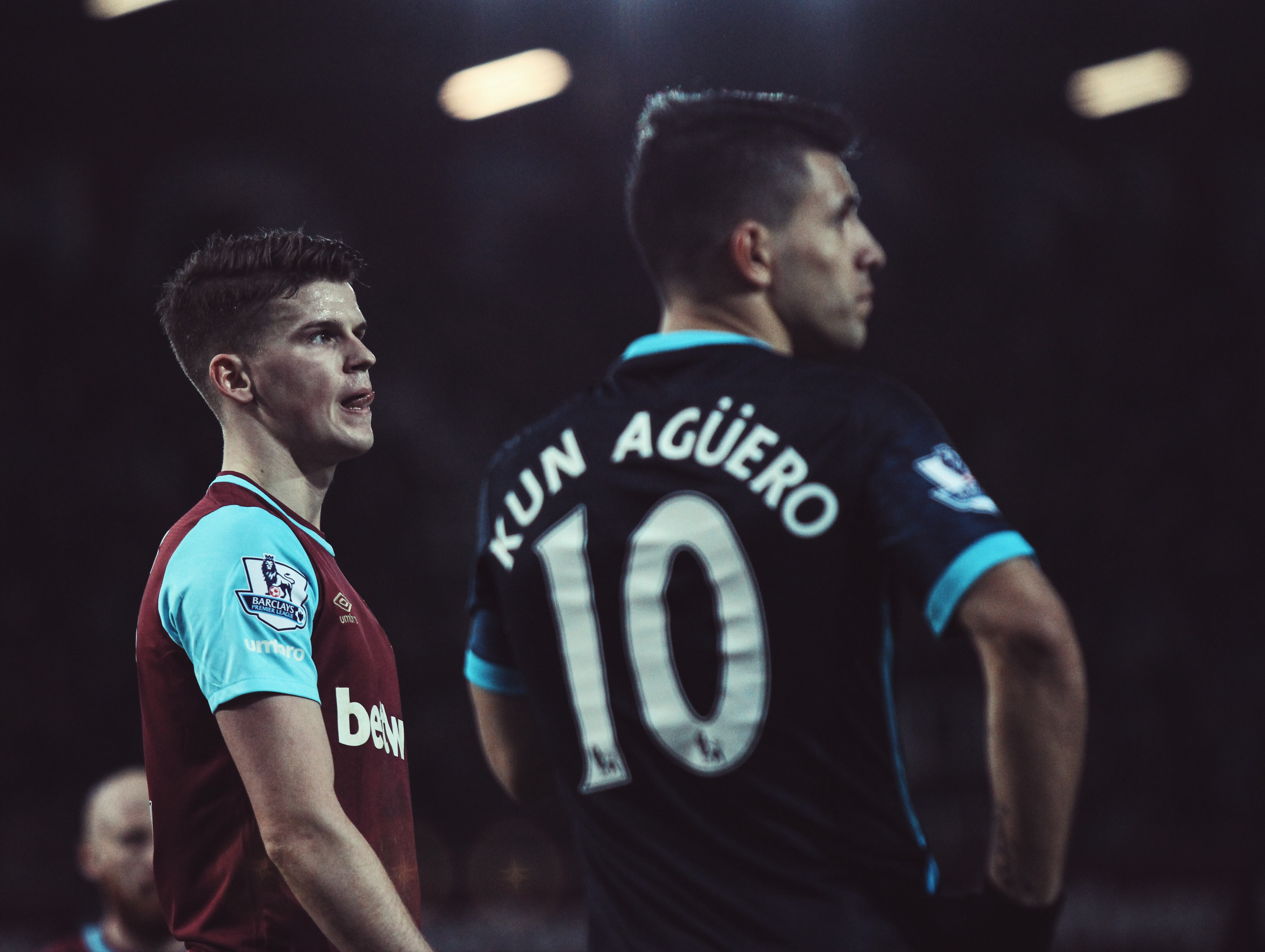 Sam Byram of West Ham during the game against Manchester City.